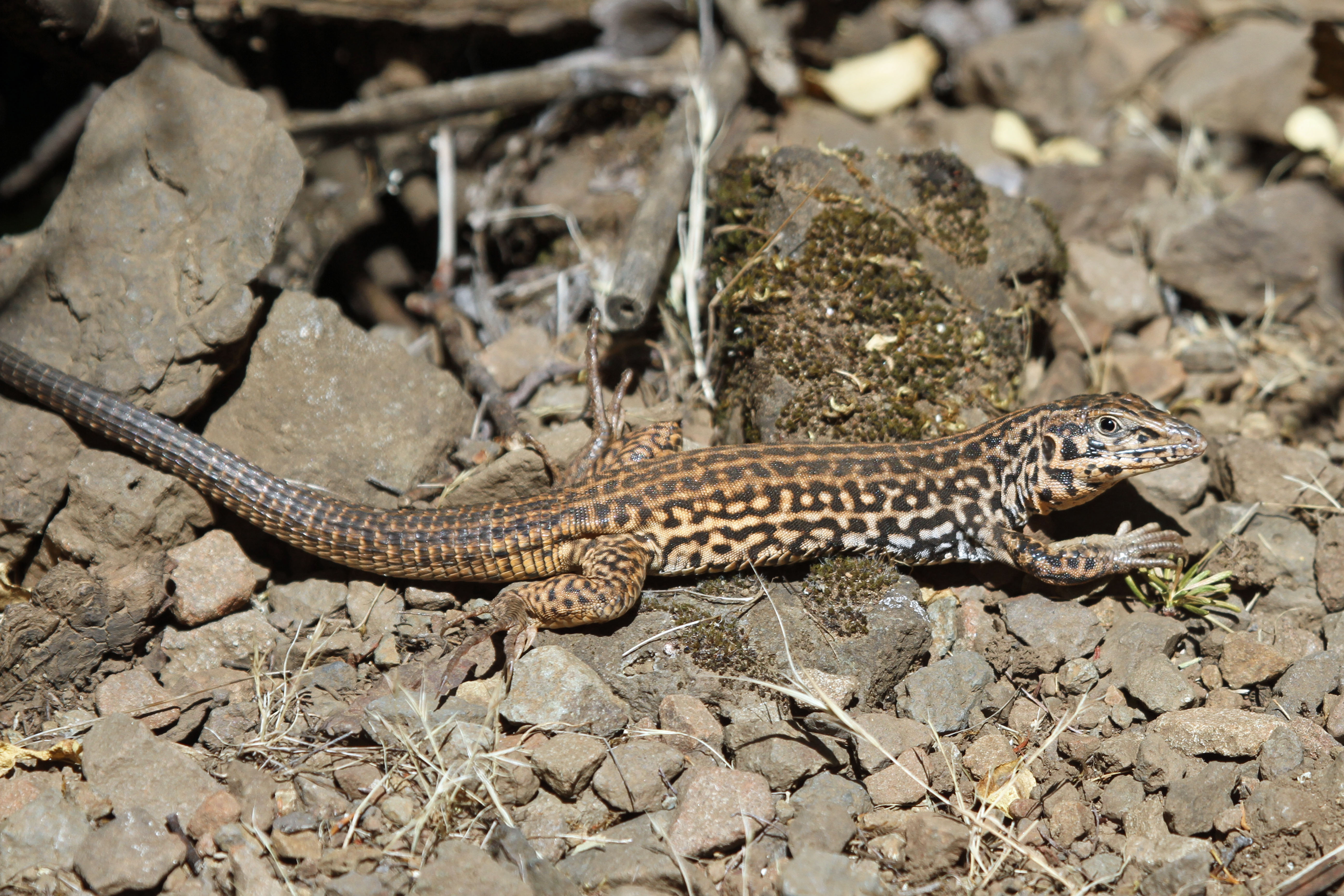 California Whiptail (Aspidoscelis tigris munda)